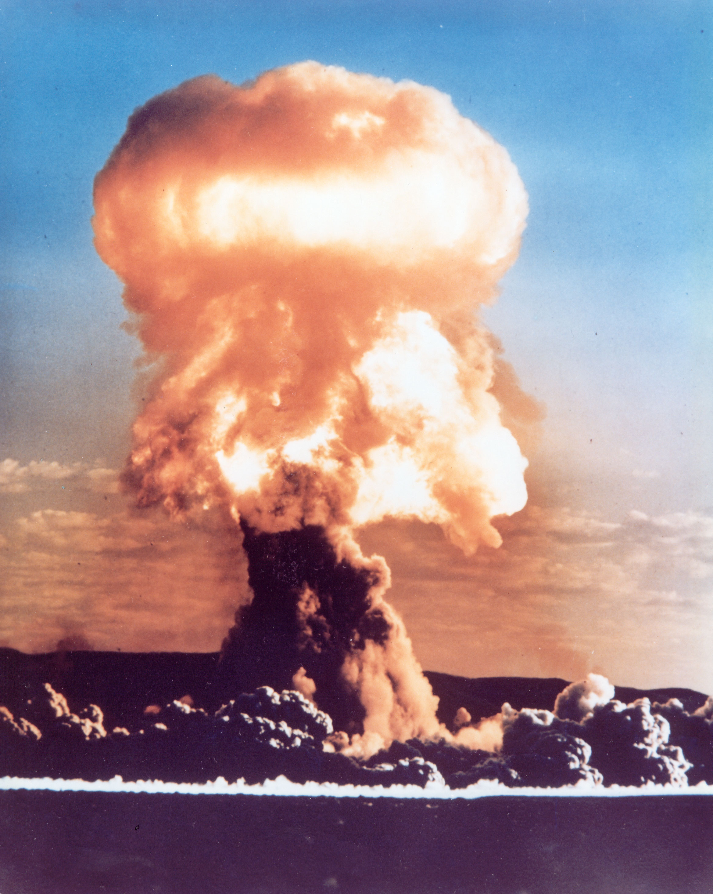 PLUMBBOB/OWENS - OWENS FIREBALL -- Nevada Test Site, July 25, 1957. “OWENS” fireball as it boiled over the Nevada desert. Shot was fired at 6:30 a.m. today at an altitude of 500 feet. Device was suspended from a plastic balloon 67 feet in diameter.